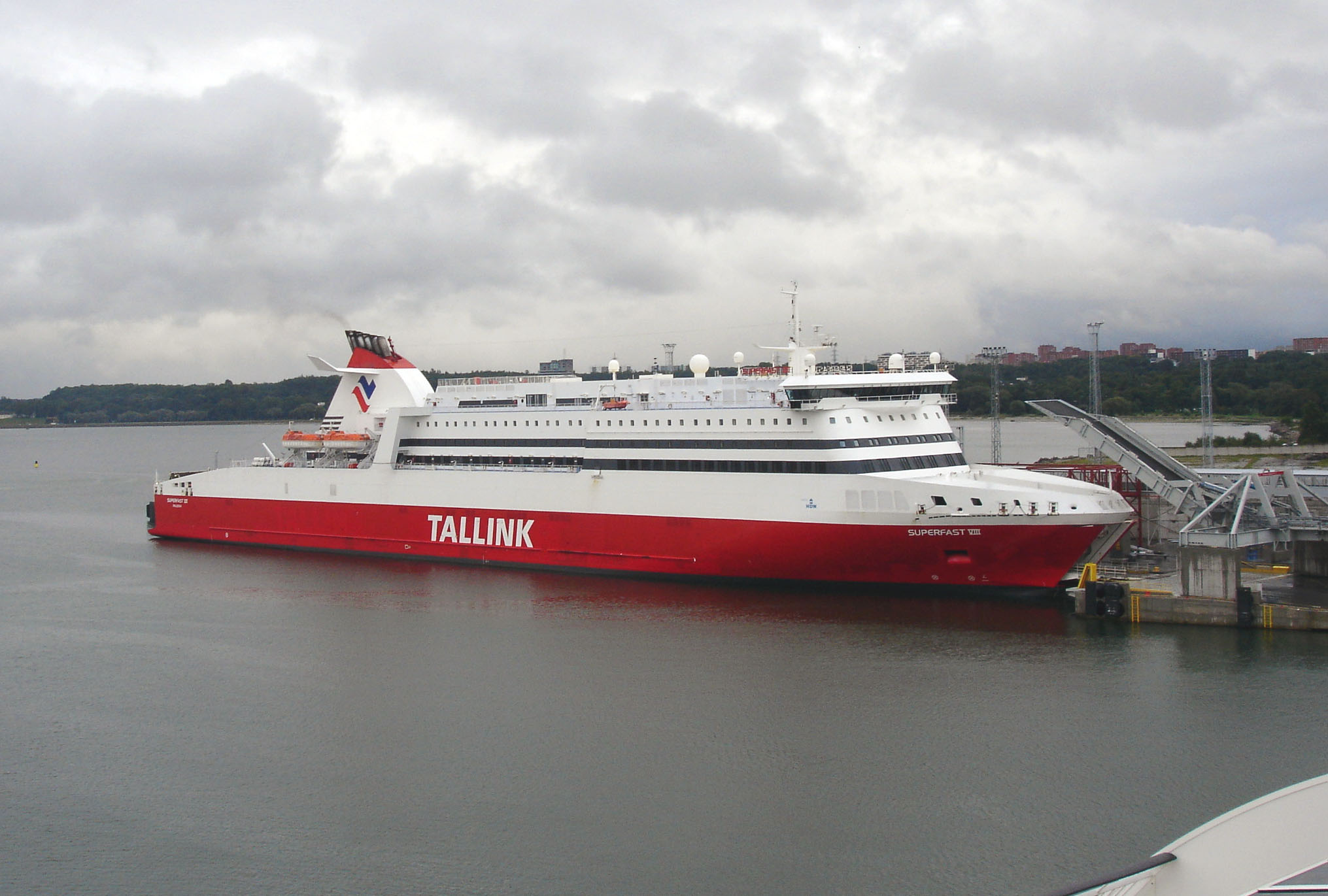 Tallink Superfast VIII in Tallinn harbour, August 2008.